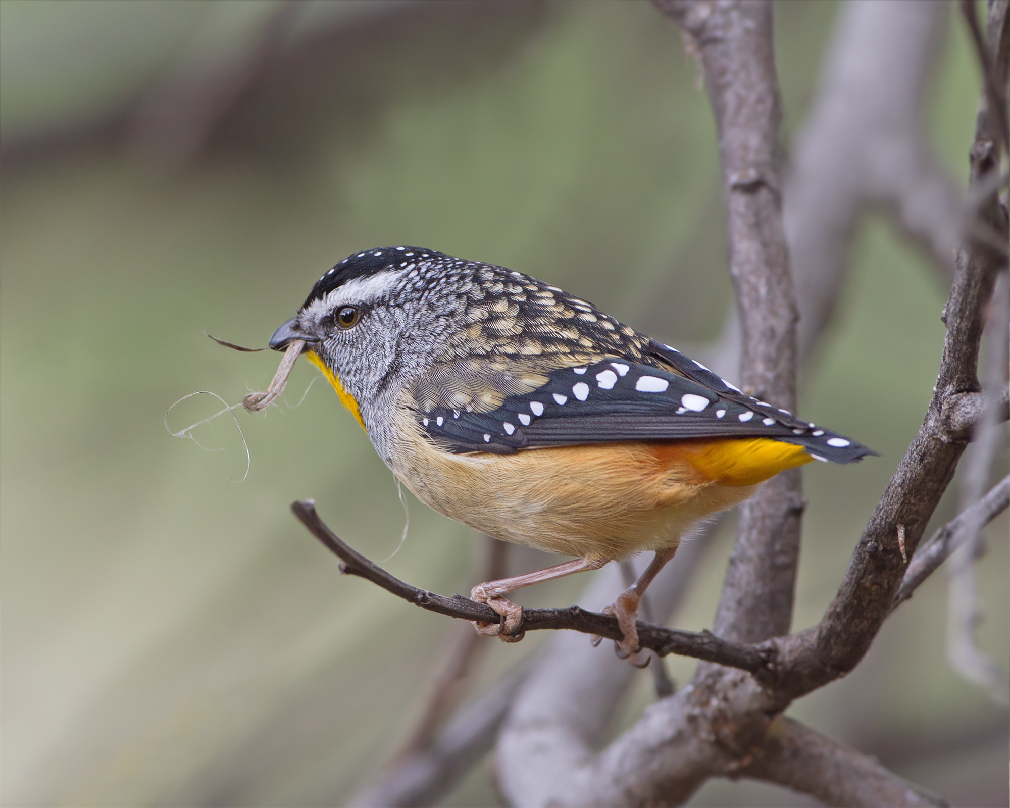 Spotted Pardalote (Pardalotus punctatus subspecies punctatus) male with nesting material, Risdon Brook Park, Tasmania, Australia.